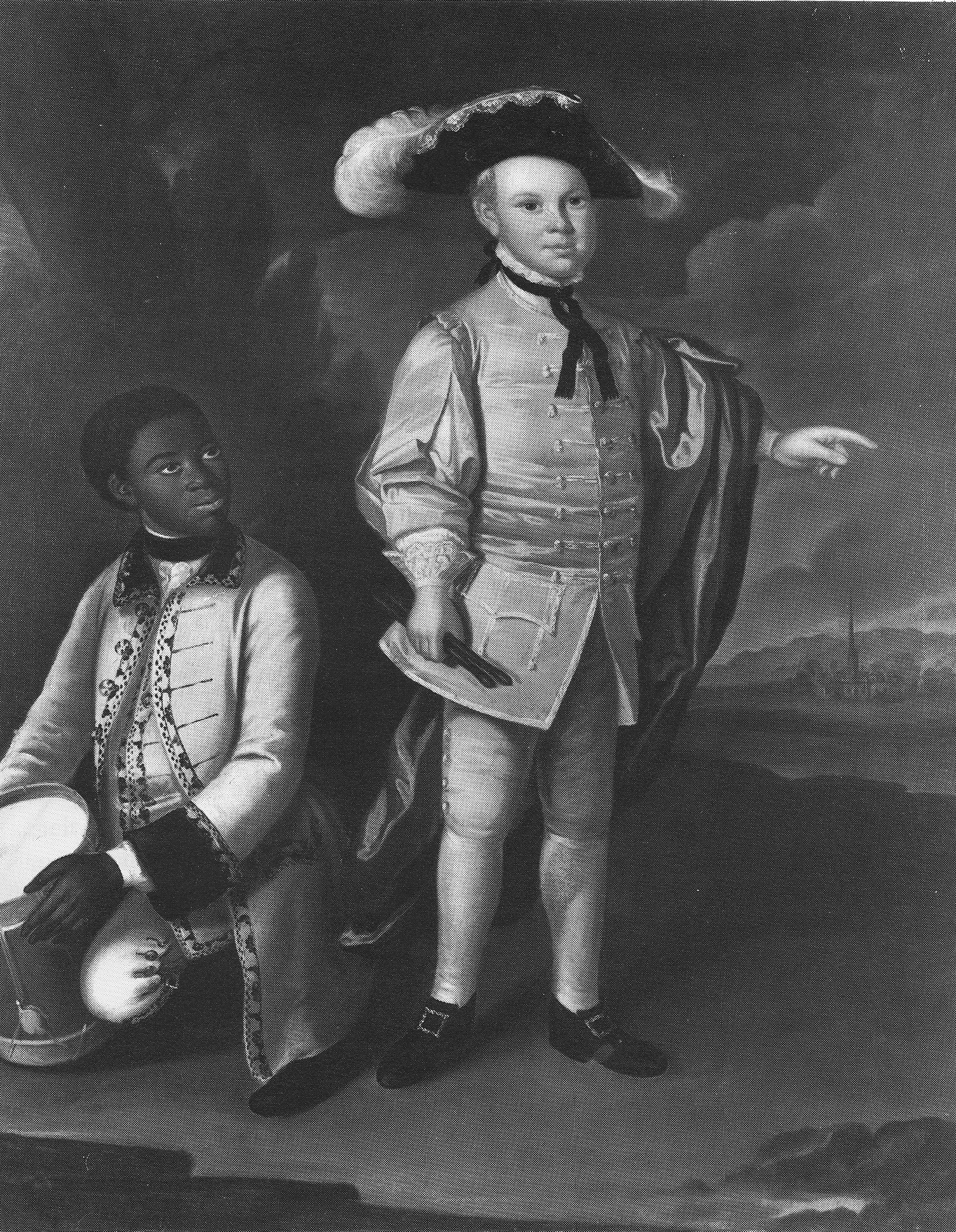 Painting of Charles Calvert